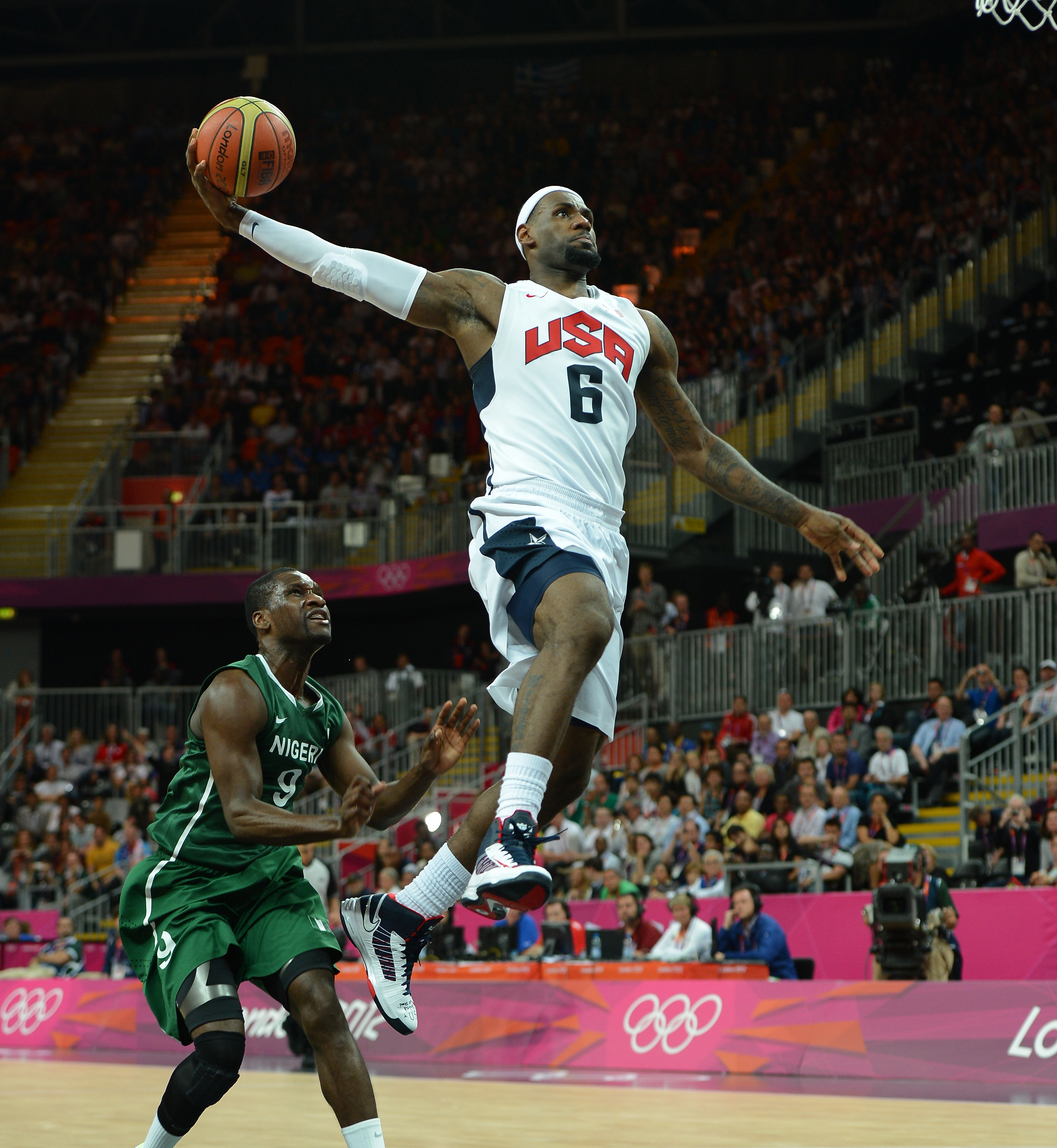 Mansoor Ahmed photos of Team USA basketball at London 2012 Olympics. Posted via email from Globalite Magazine